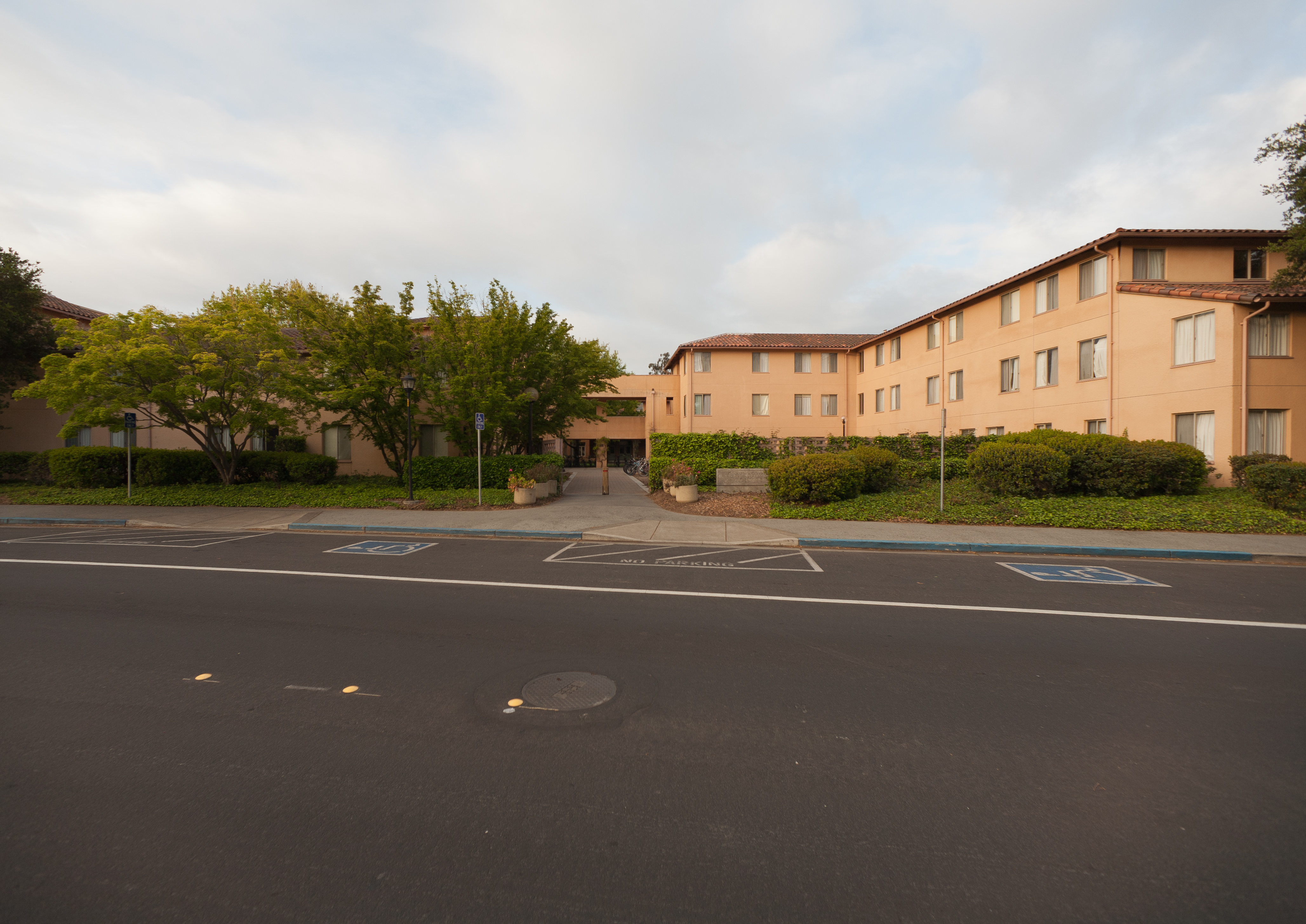 Freshman-Sophomore College (FroSoCo) facing Santa Teresa Street in Stanford University, Stanford, California.